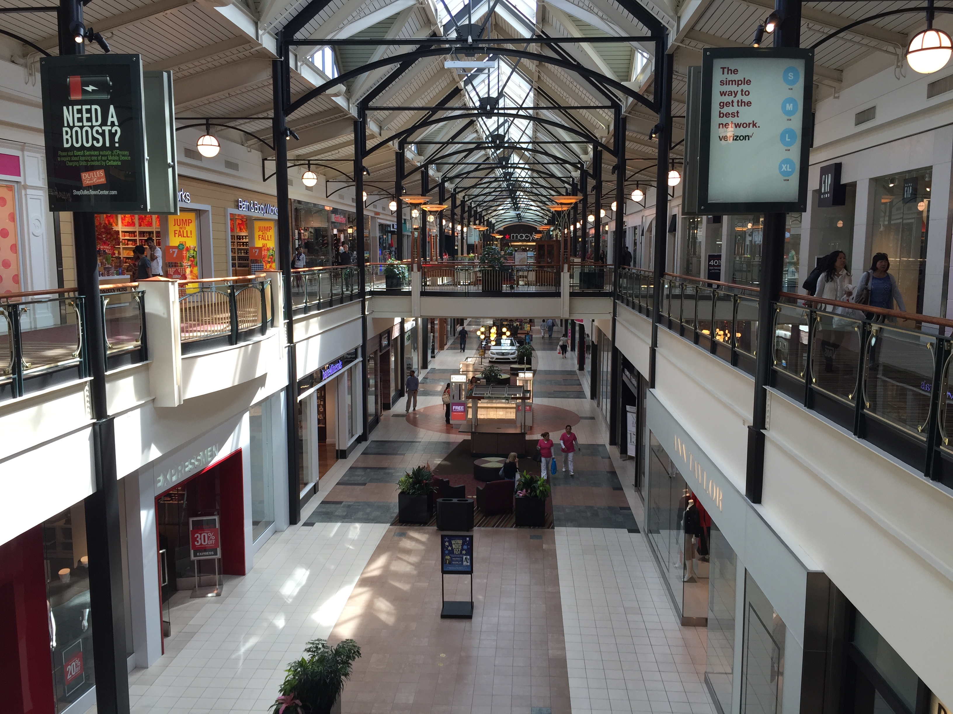 Interior of the Dulles Town Center Mall in Dulles Town Center, Loudoun County, Virginia